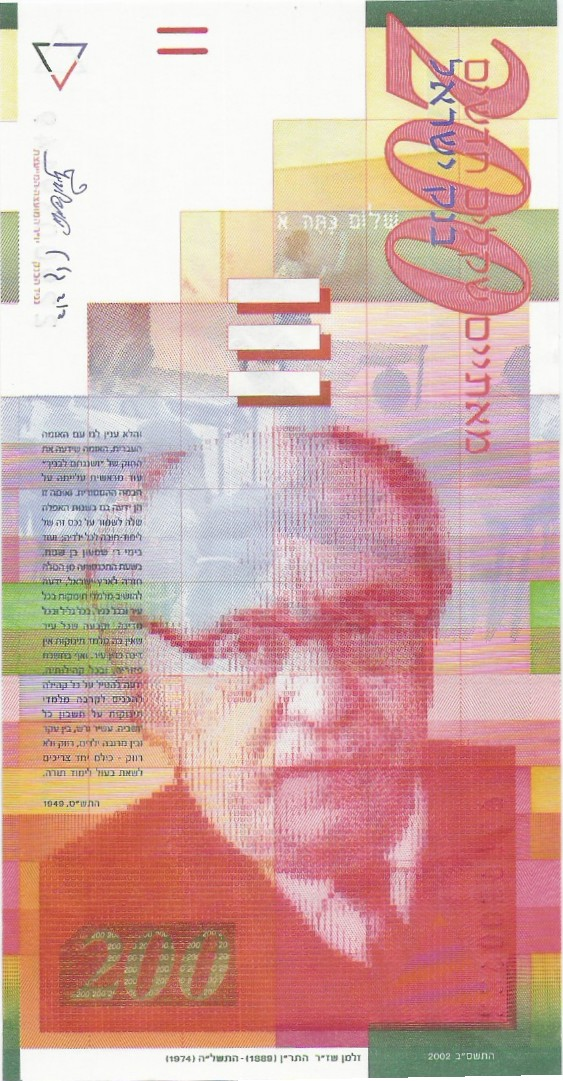 Obverse side of a 200 NIS bill